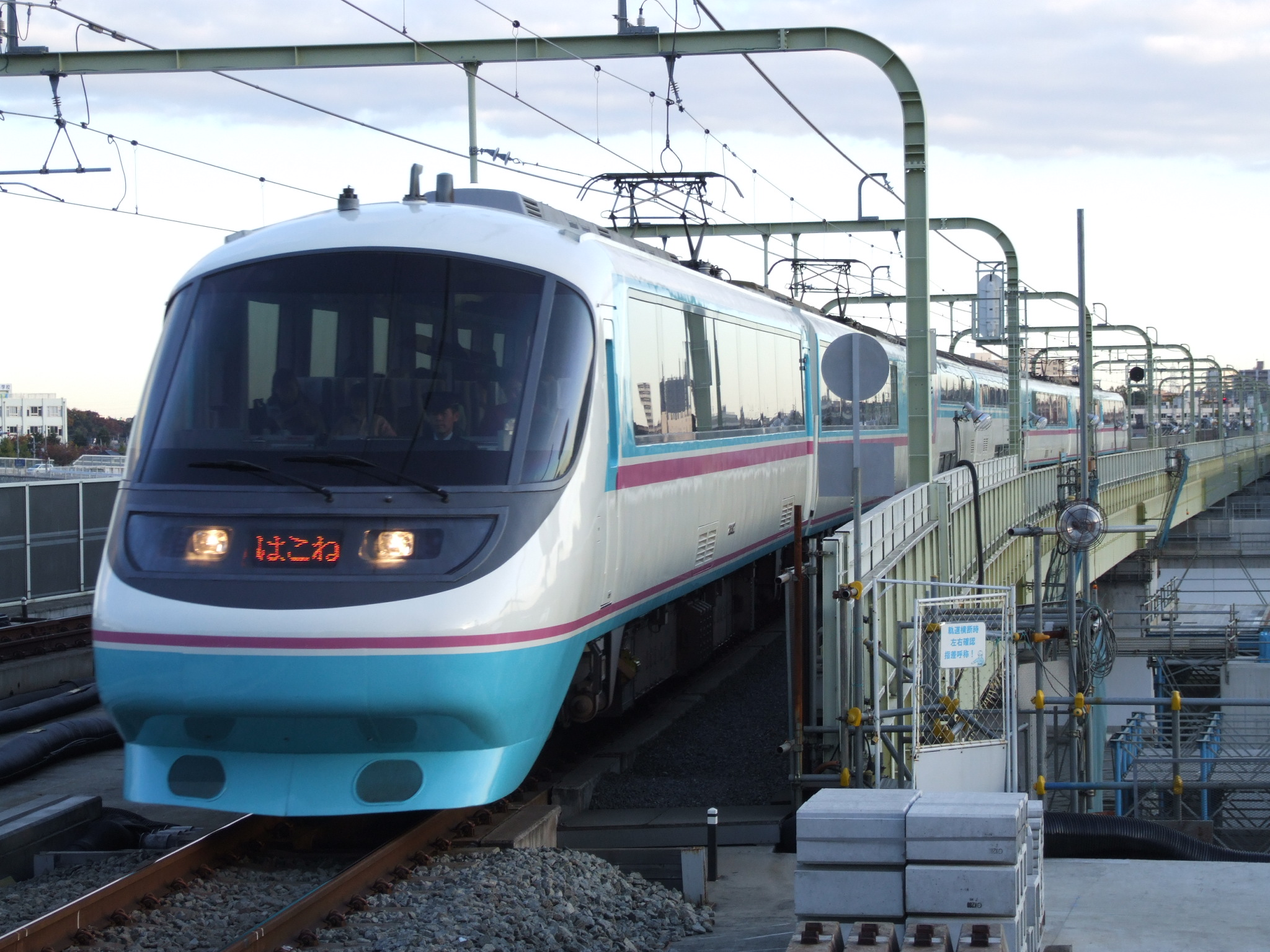 〝Hakone〟of Model 20000 -Odakyu RomanceCar RSE-,Odakyu Electric Railwey,Japan